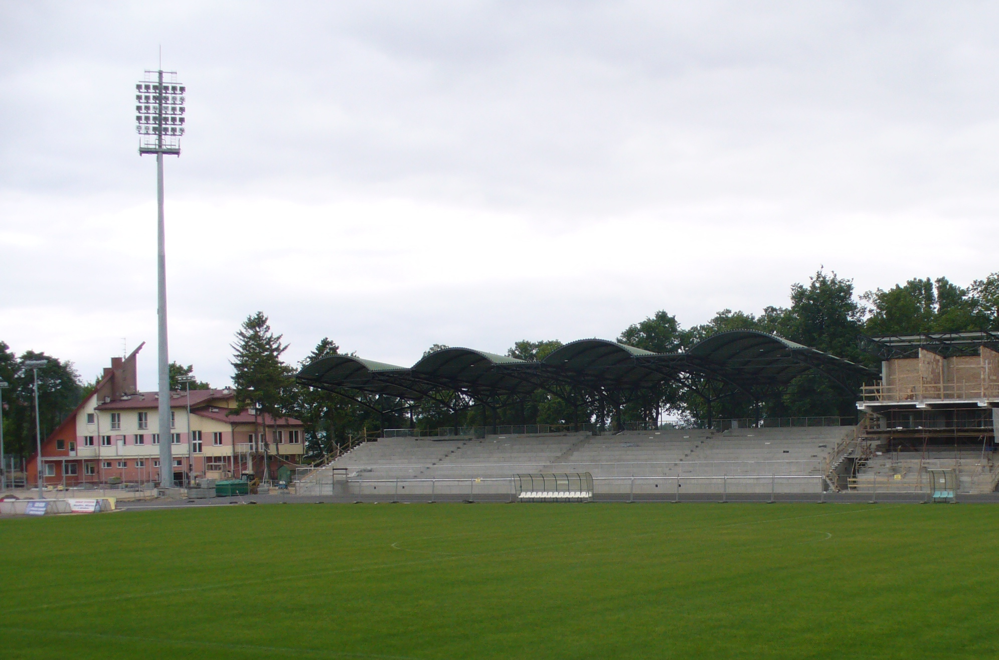 Stadium's construction site in Łomża